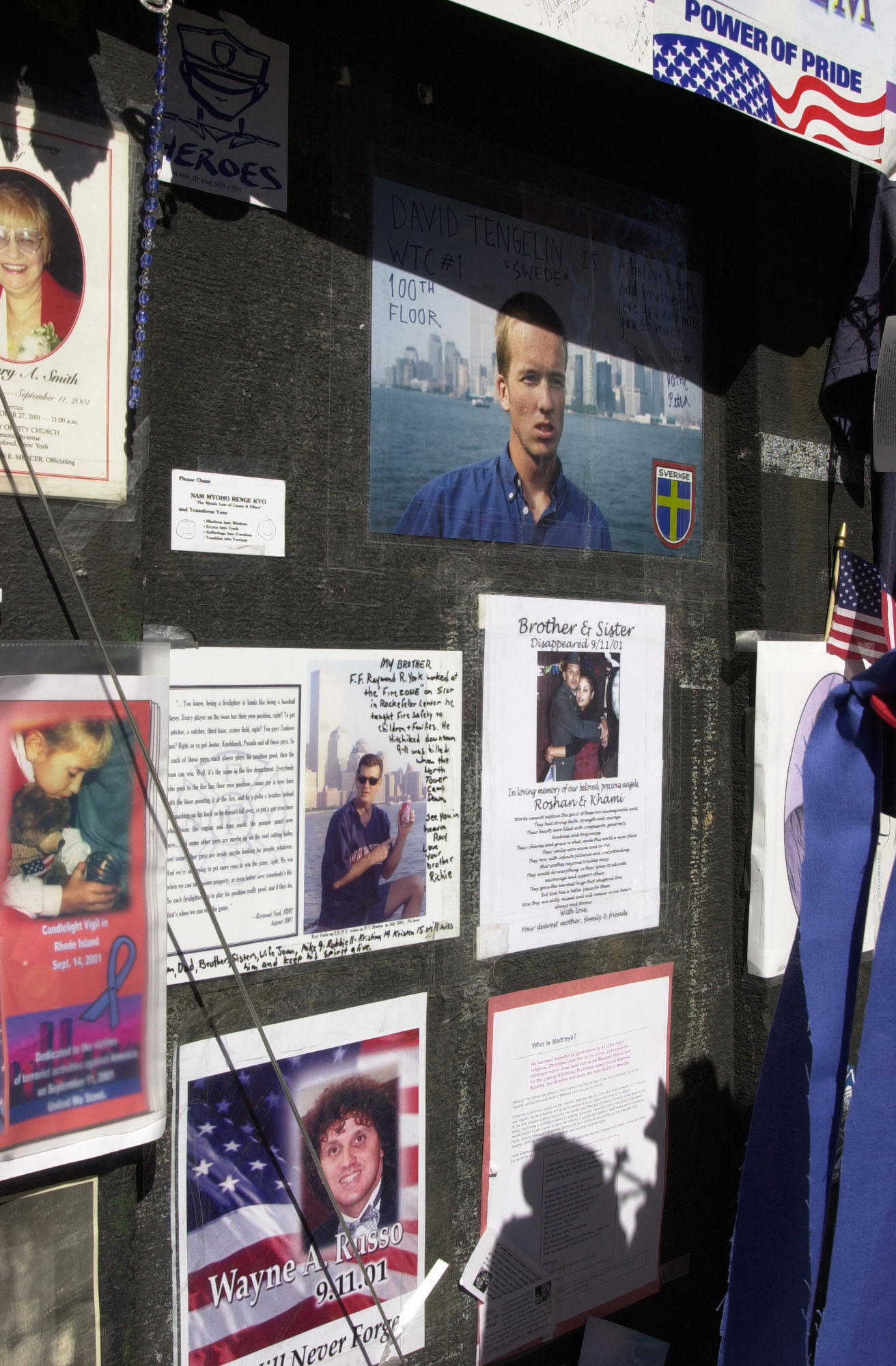 New York, N.Y., September 12, 2002 -- Memorials are placed along the fence of St Paul's Church near Ground Zero from people all over the world. Photo by Lauren Hobart/FEMA News Photo